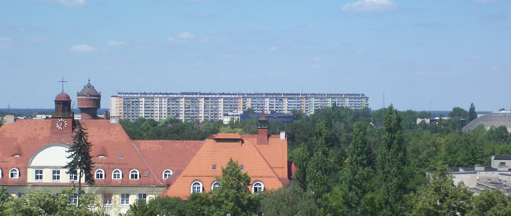 The view of residential blocks in Opole-Chabry